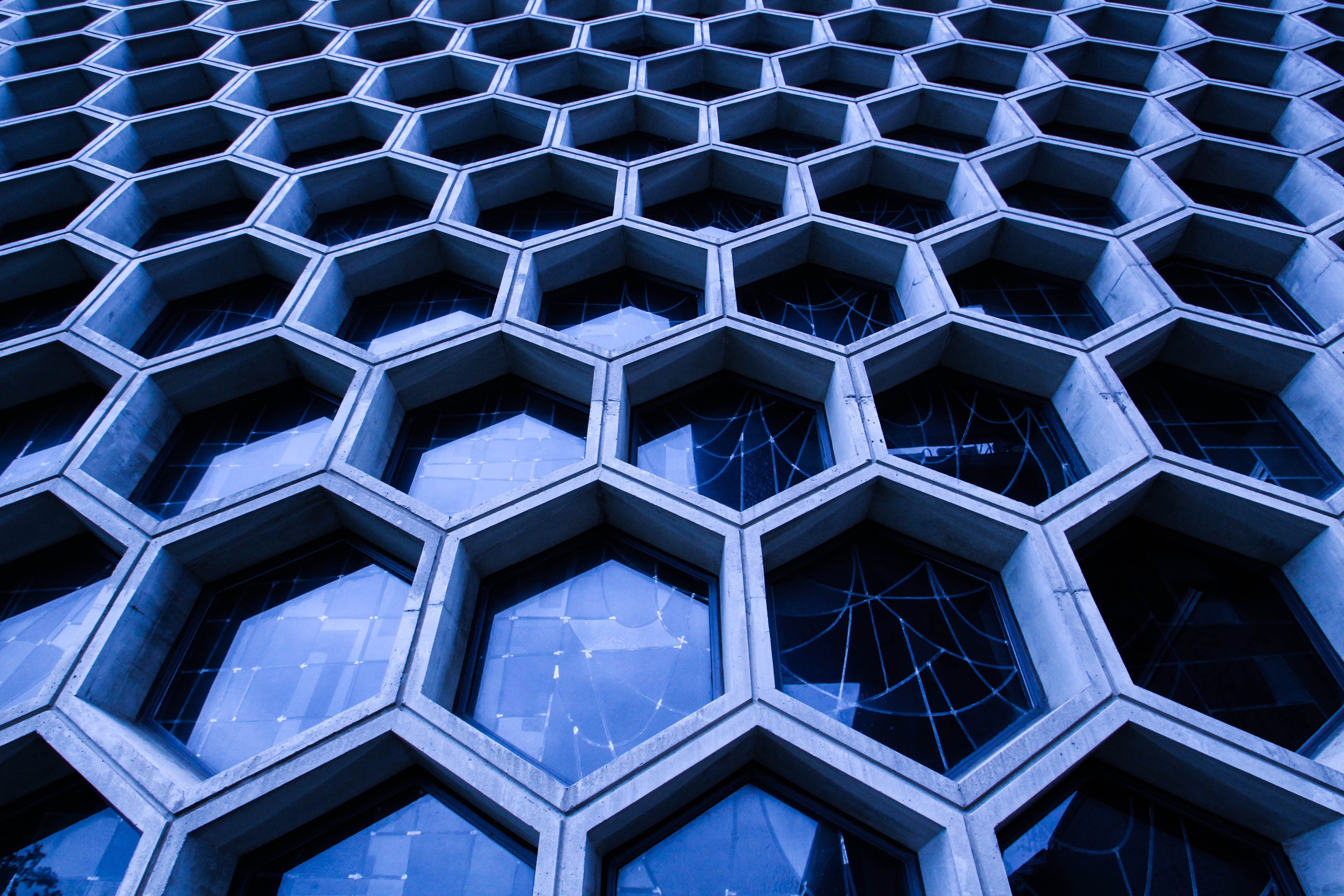 St. John